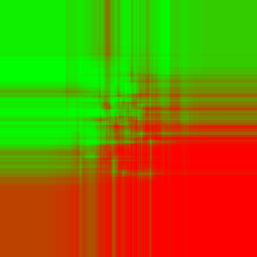 Random Forest Model Space